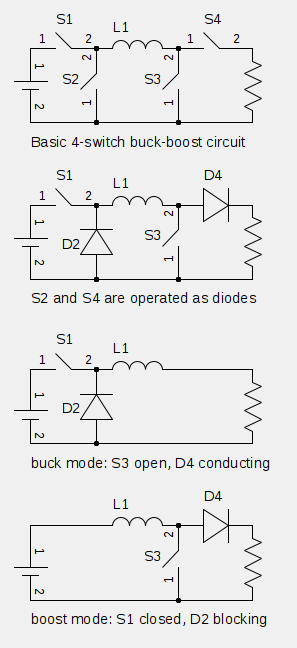 The conceptual circuit diagram of the 4-switch buck/boost converter, how diodes are represented that are replaced by switches, and how the buck and boost modes work Buck%E2%80%93boost_converter